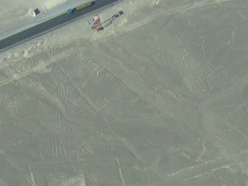 Nasca (Peru), Tree and Hands, August 2007